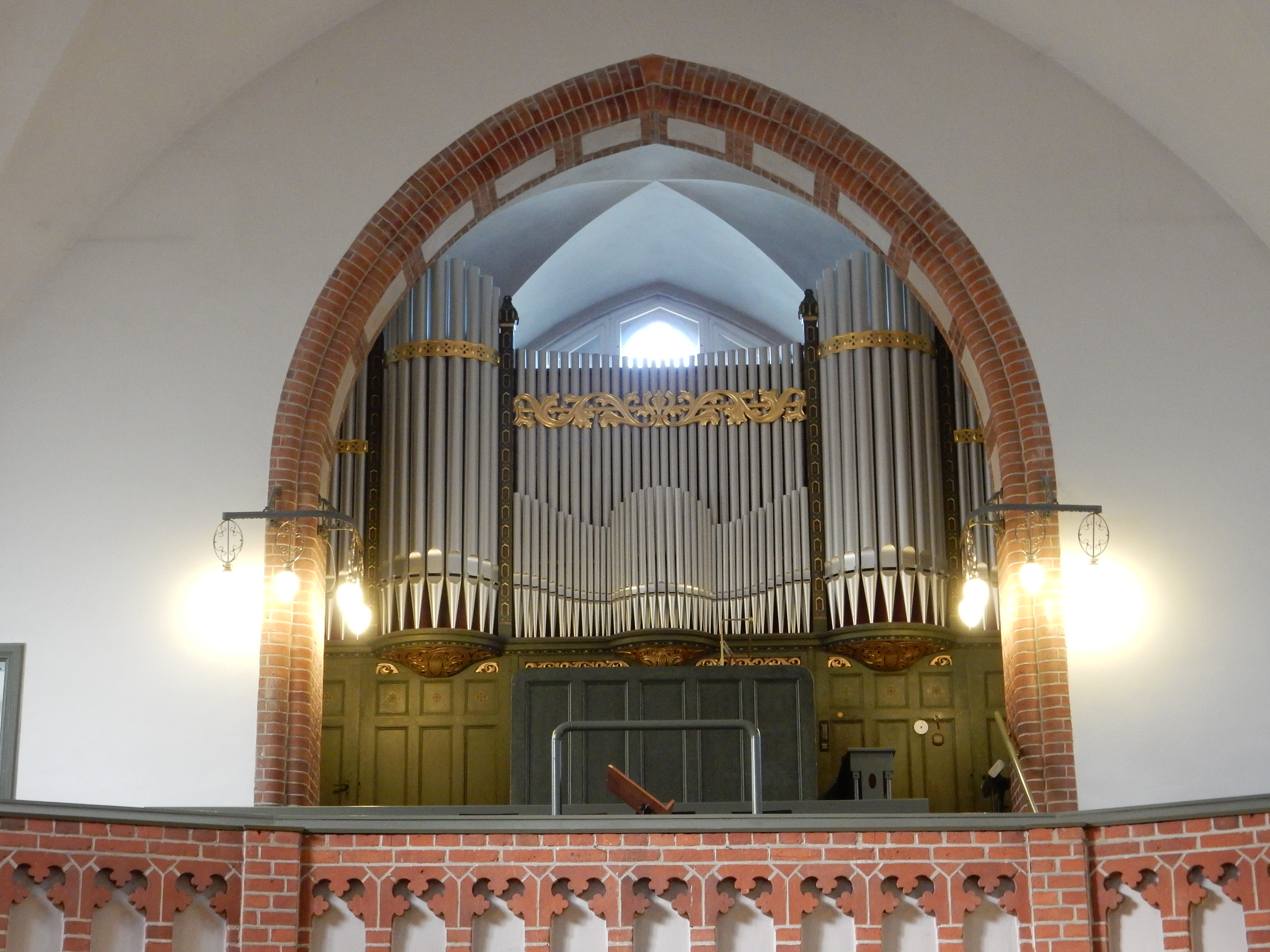 Case of the Parabrahm Organ by Weigle an Schiedmayer at evangelic church at Eichwalde, Brandenburg, Germany